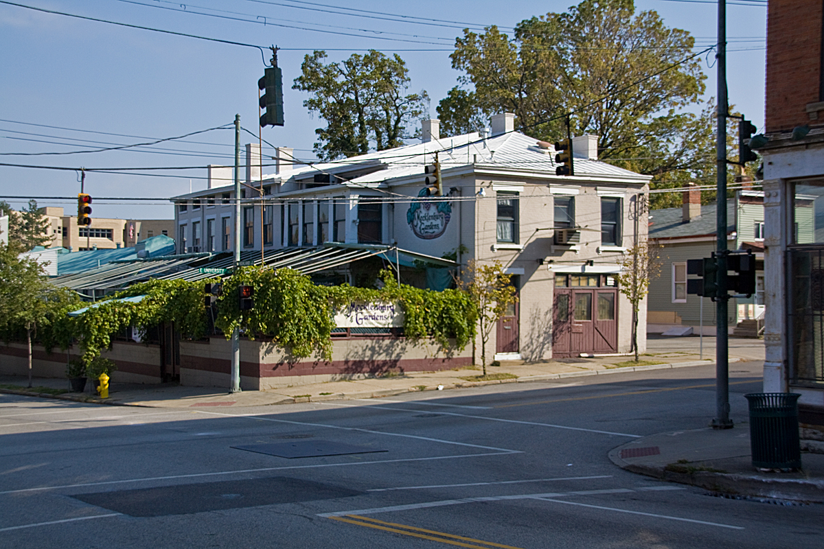 Mecklenburg Garden in Cincinnati, OH. Photo by Greg Hume